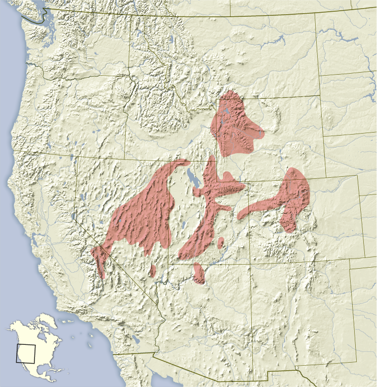 Distribution map of the Uinta chipmunk